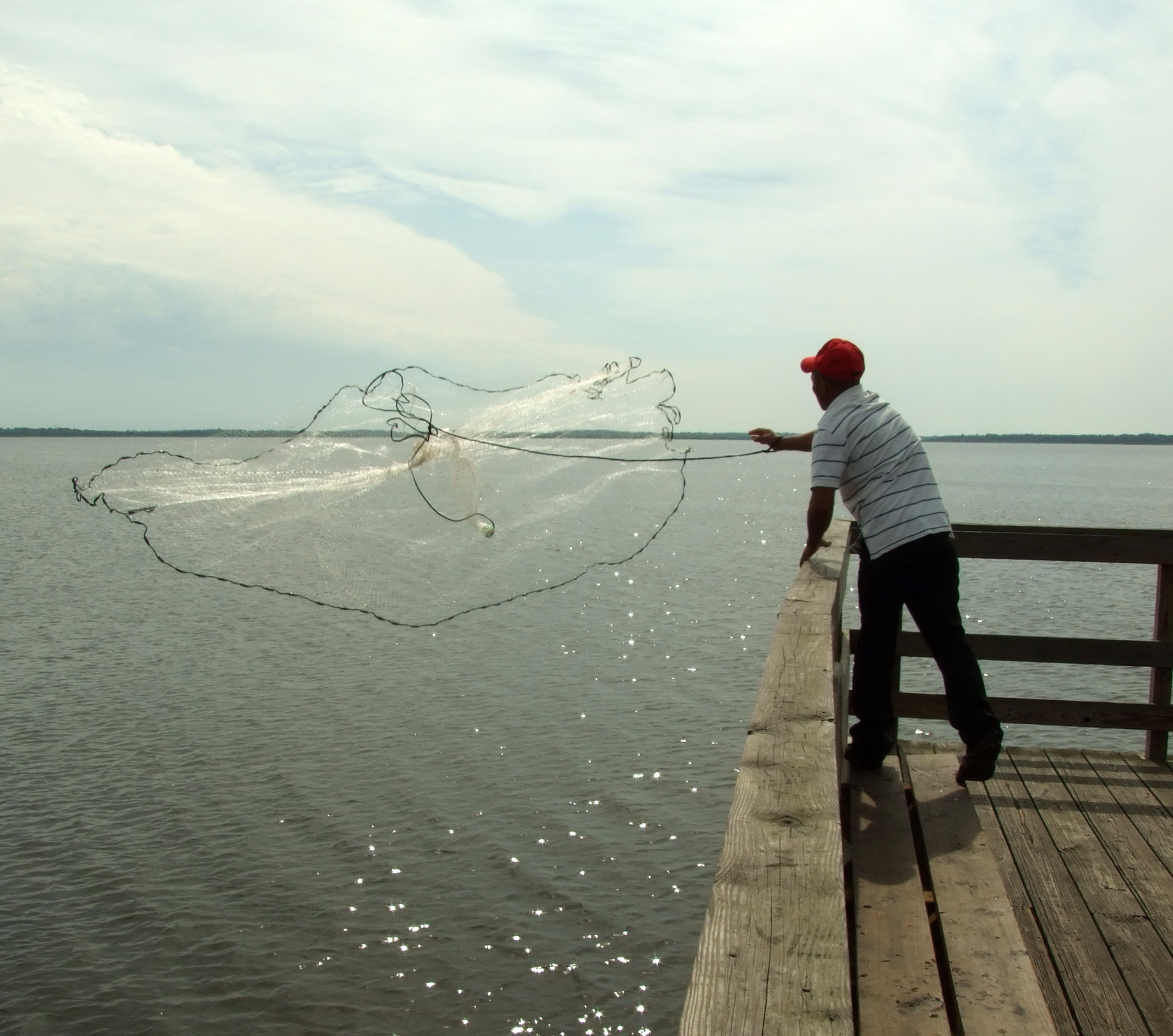 A fisherman casting a net